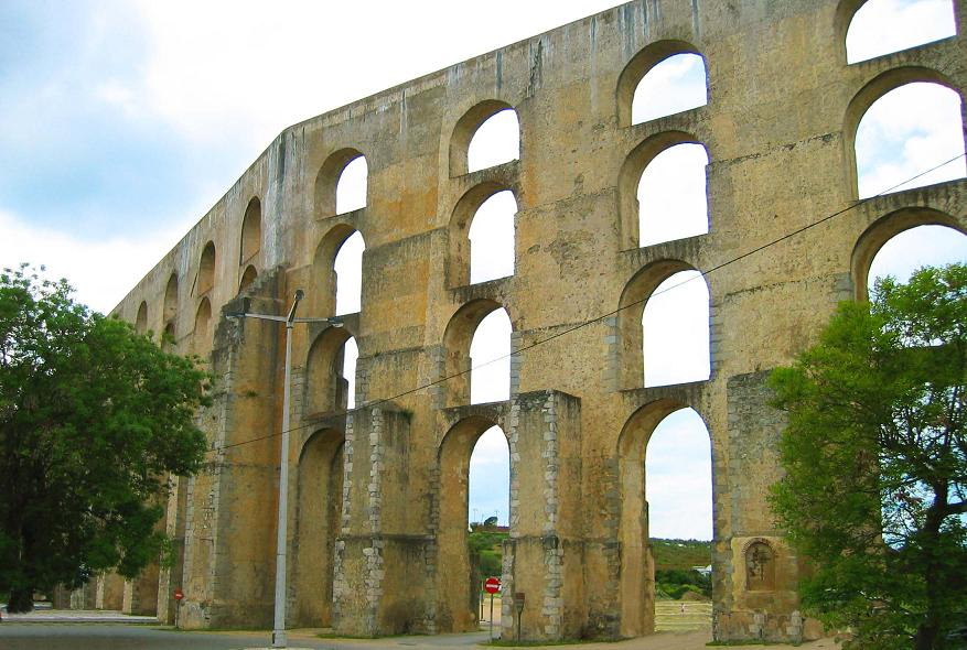 Aqueduct of Elvas - Portugal